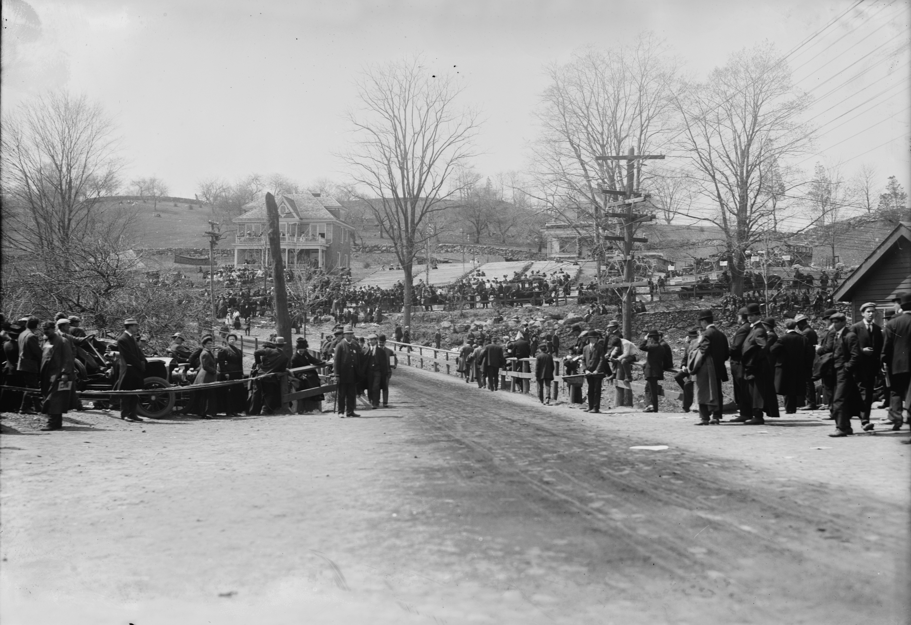 The Briarcliff International Road Race, taken April 24, 1908.